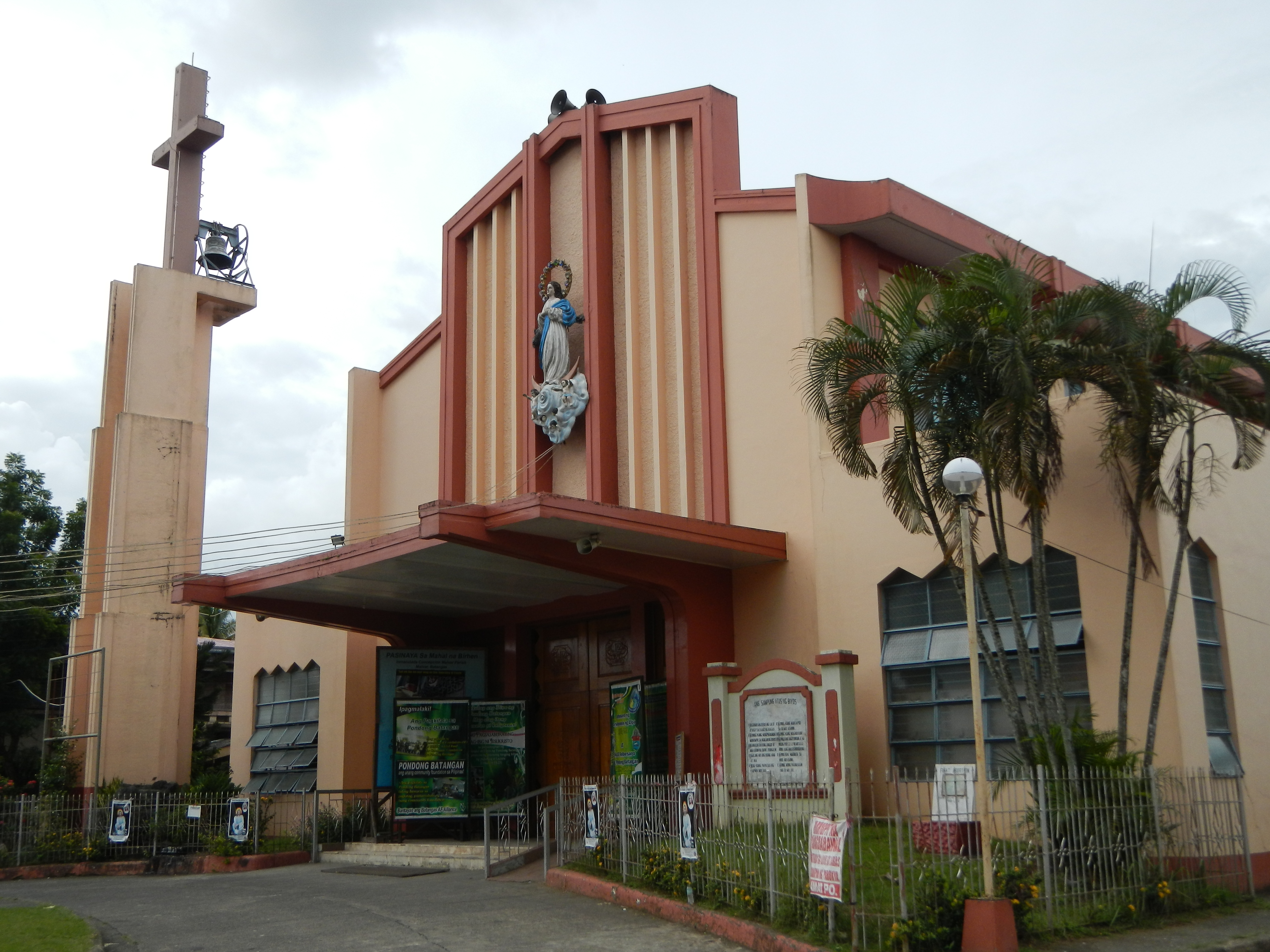 Immaculate Conception Parish Church of Malvar, Batangas Vicariate VI: Vicariate of the Most Holy Rosary - It belongs to the [1]Roman Catholic Archdiocese of Lipa. --- Malvar, Batangas [2] is a second class municipality in the Province of Batangas[3], Philippines. As of 2009, the population of Malvar was 41,270 and the total number of households was 8,678. The municipality was named after General Miguel Malvar[4], the last Filipino General to surrender to the American Government in the Philippines in 1902.[5] Geographical location: Batangas, Region 4, Philippines, Asia geographical coordinates: 14° 2' 41" North, 121° 9' 31" East [6] Coordinates: 14°1'55"N 121°8'42"E